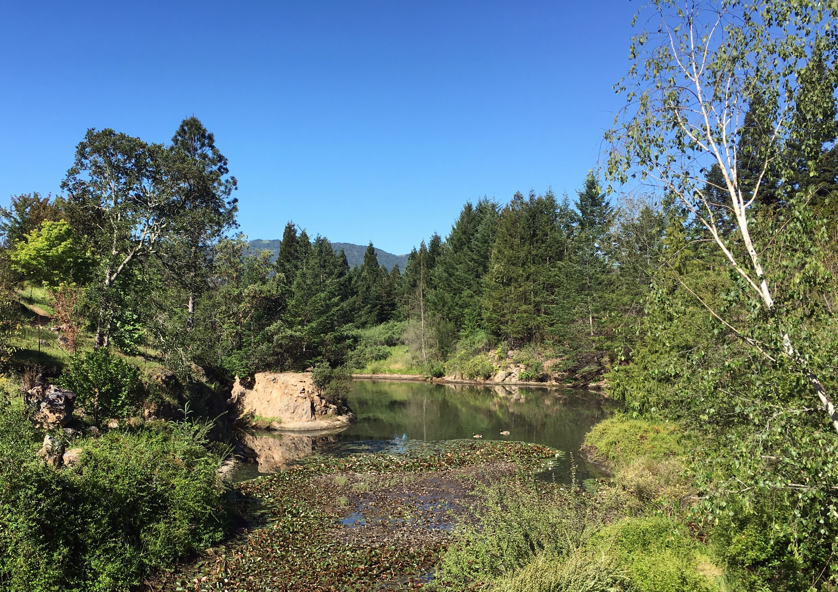 The view looking to the northeast across the large pond at Quarryhill Botanical Garden, the 25-acre wild Asian woodland in Sonoma Valley.